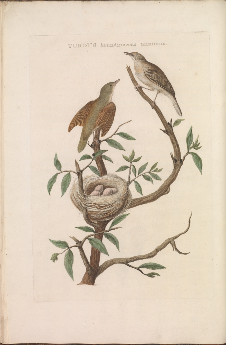 Plate 54 from the Nederlandsche vogelen by Nozeman and Sepp.